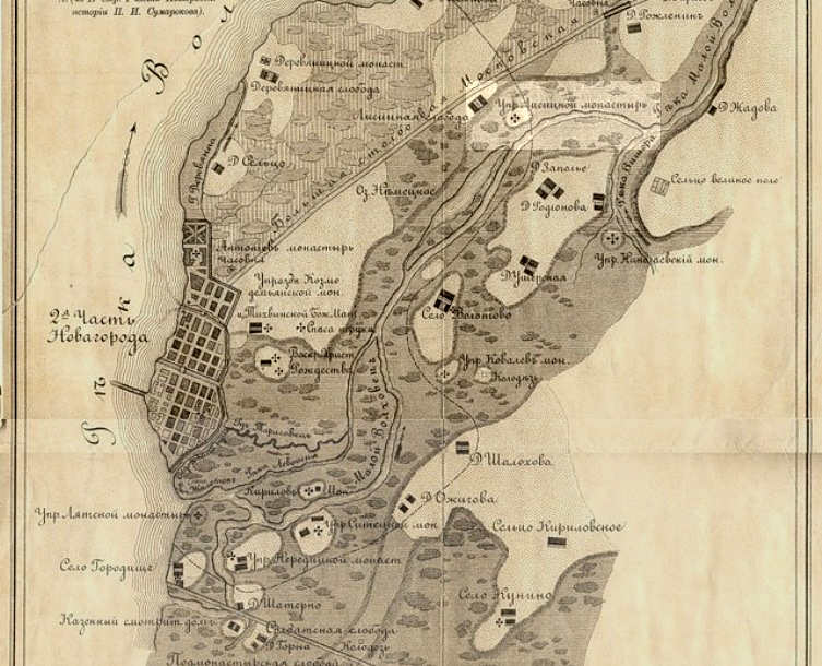 Old map of the lands around Novgorod and the mark of Lisitsky monastery, Russia